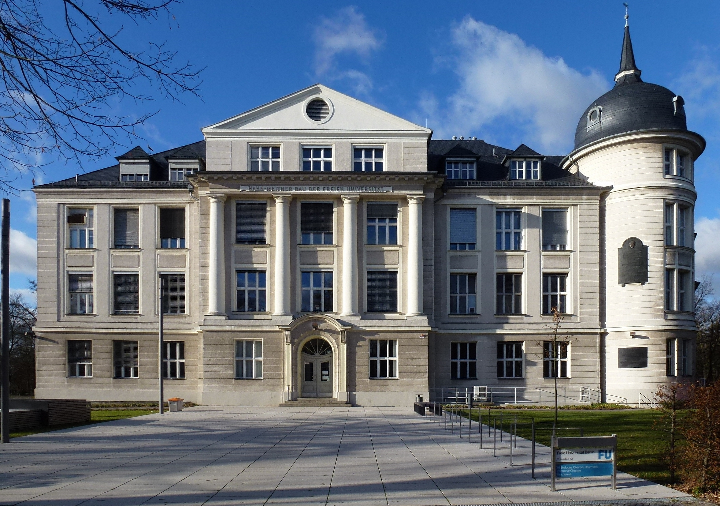 Berlin-Dahlem - Thielallee 63 - Hahn-Meitner-Bau